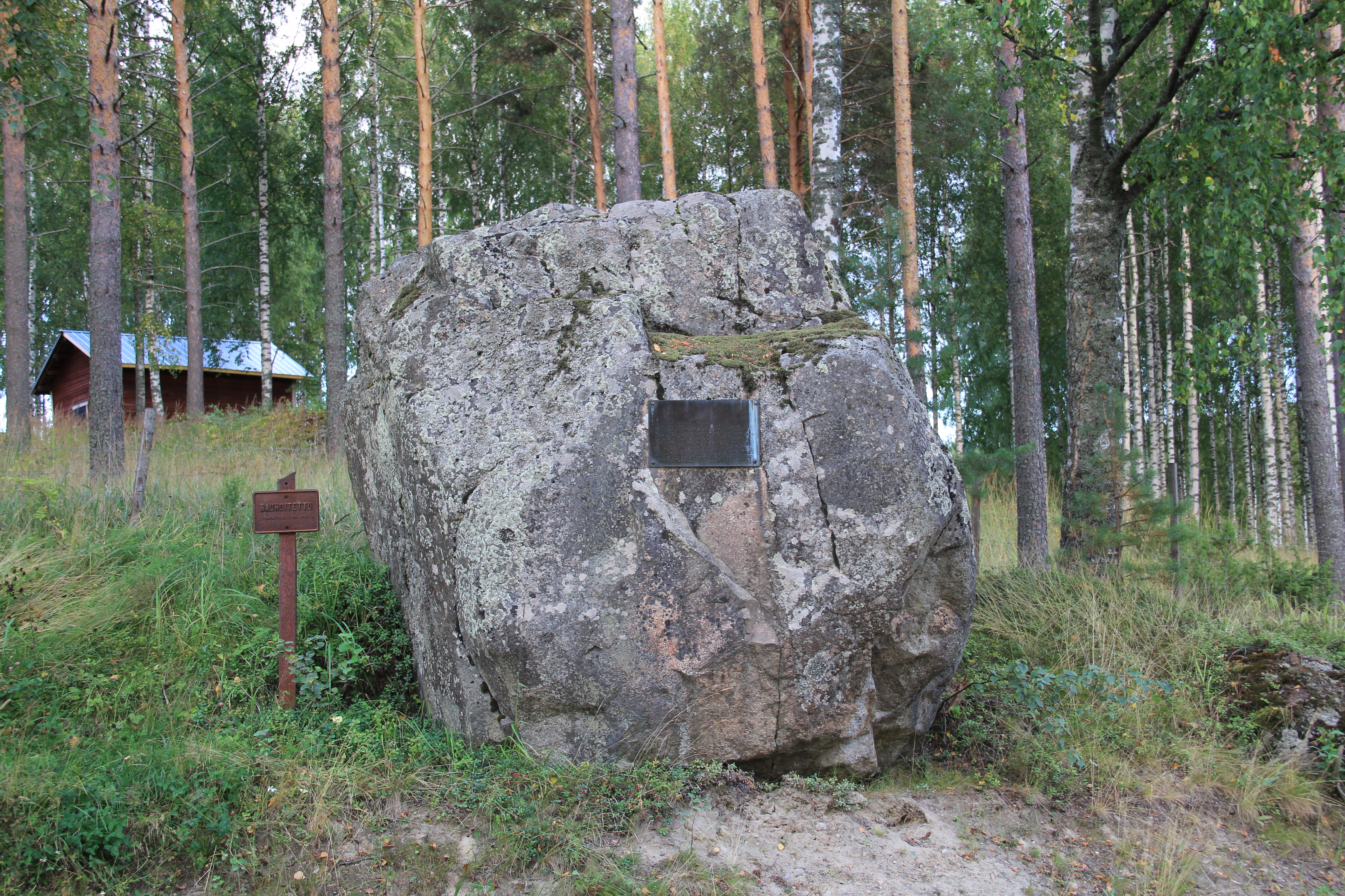 Venäläiskivi ("Russians's stone"), Koivistonkylä, Äänekoski, Finland. - Glacial erratic, protected by law. On the stone a memorial plaque of a battle in the Finnish War 1808-1809.